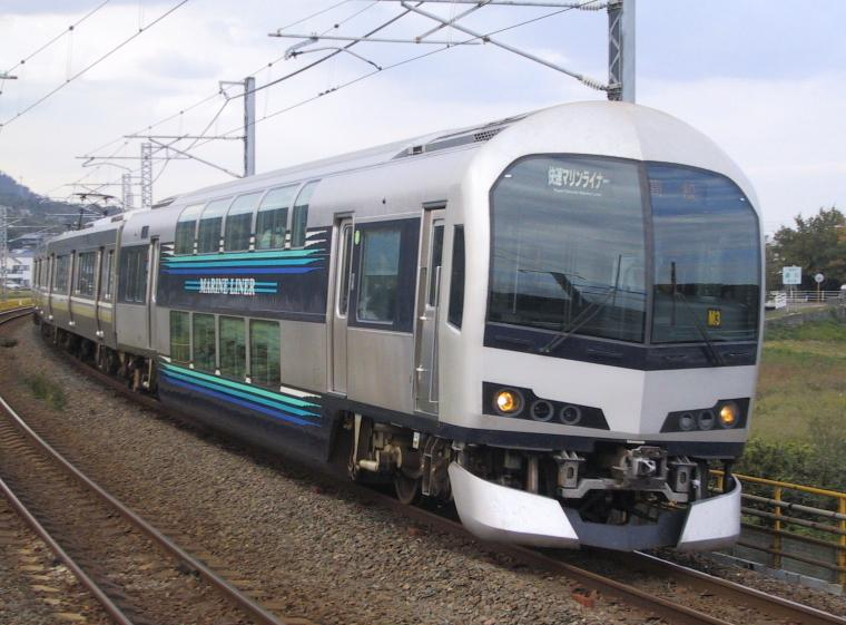 A JR Shikoku 5000 series EMU on a Marine Liner rapid service